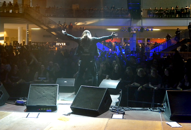 DeathRiders performing at Rocktower Festival, Gerluebeck, Germany 2009